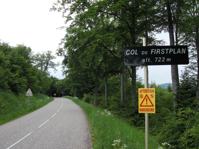 Col du Firstplan: Pass summit